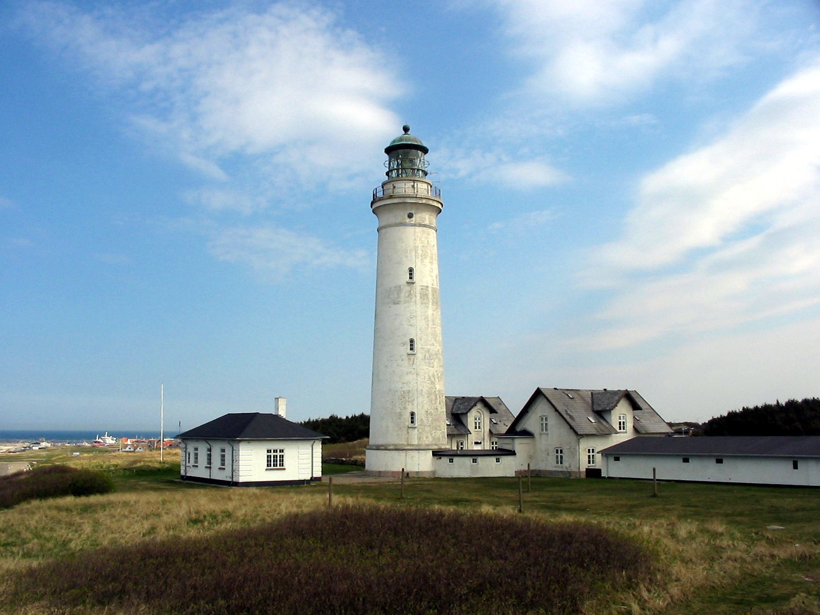 the lighthouse in Hirtshals, Denmark